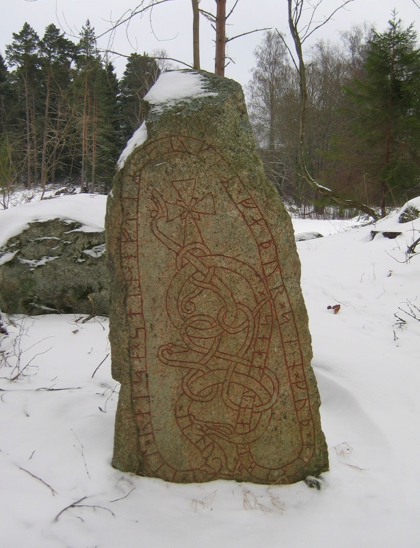 Runestone U 411, Norrtil, Sankt Olof parish, Uppland, Sweden